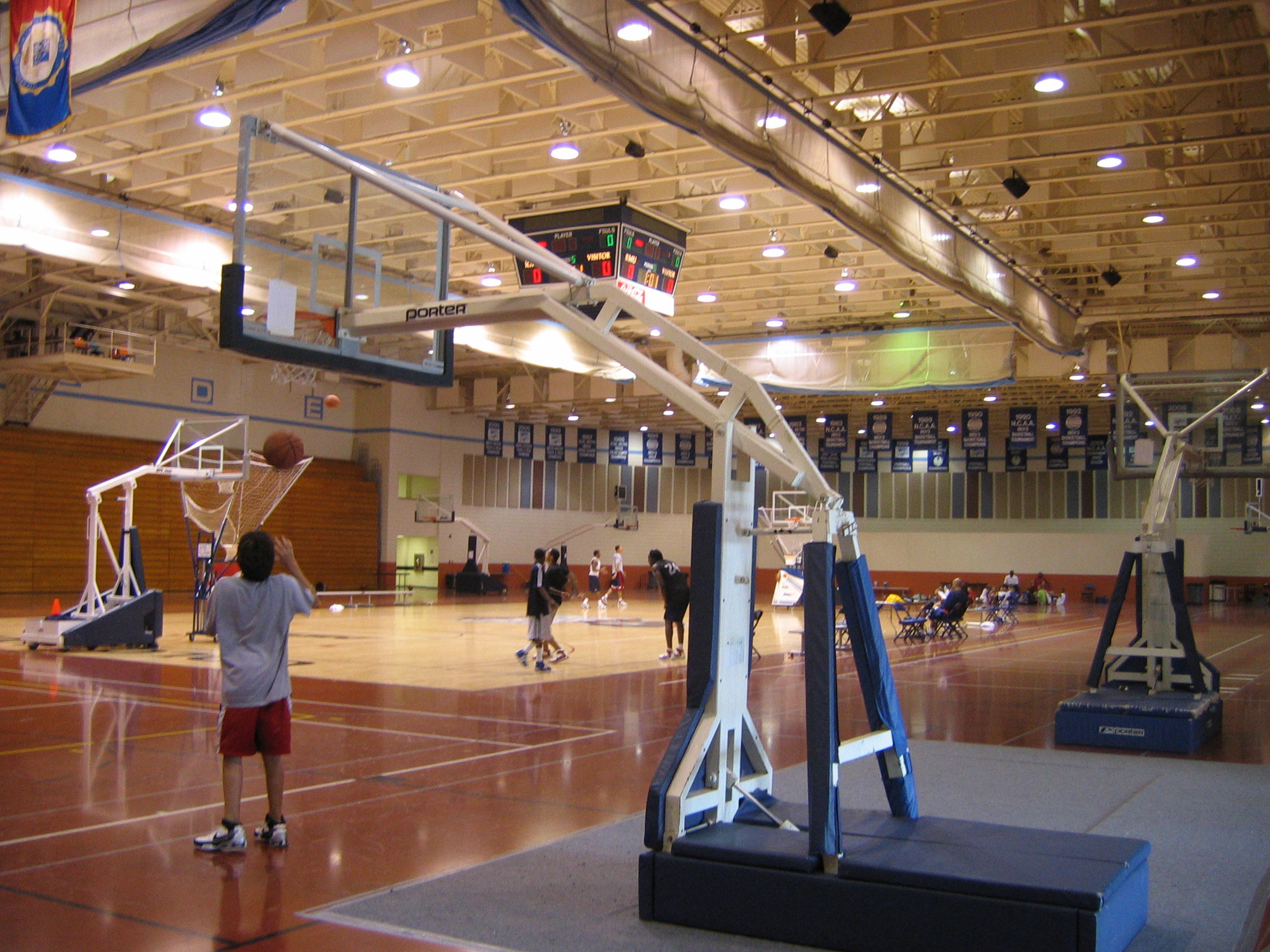 Football & Basketball Facilities Robert Morris Gym